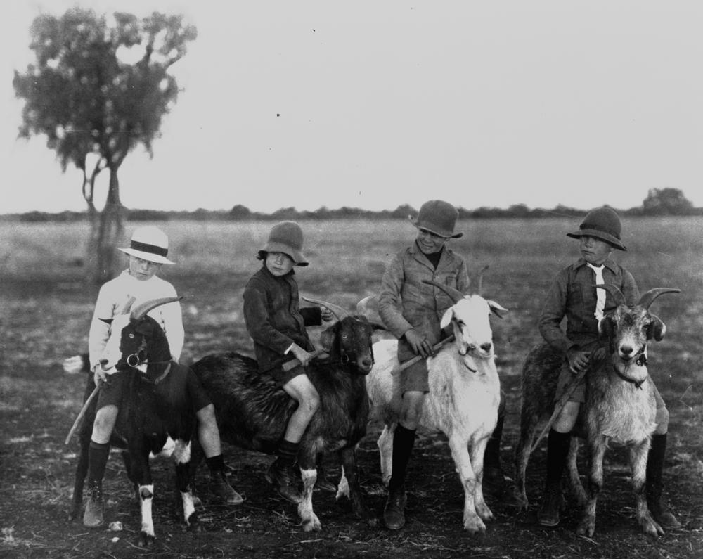 The boys - Owen McVey, Walter Grant, James Grant and Carl Vaughan. Isisford, Australia